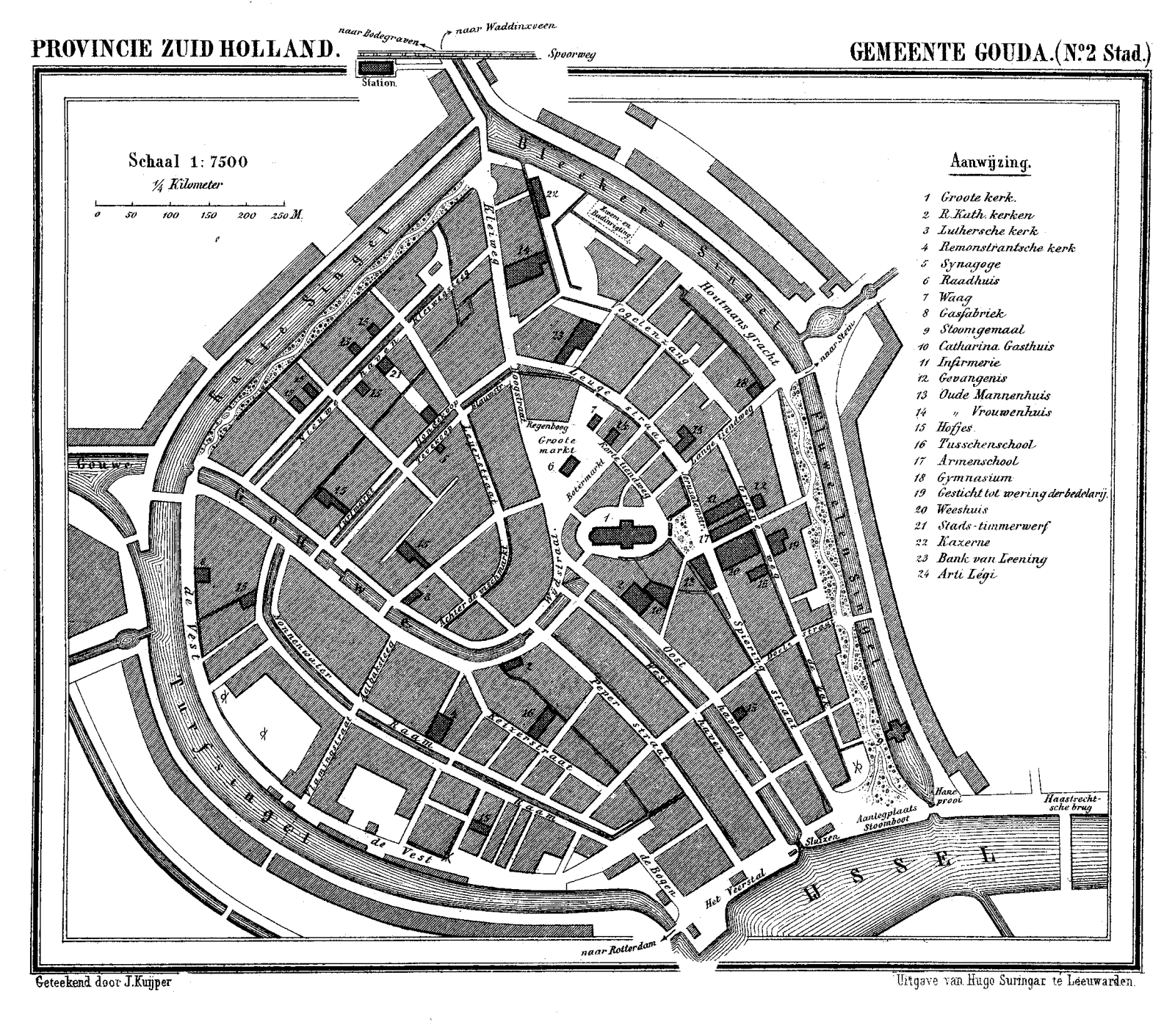 Historic map of Gouda, the Netherlands